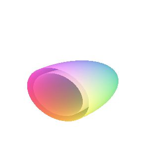 (3D Homoeoid cat at the yz-plane. Outer ellipsoid with semiaxes a=1, b=1/2, c=1/3.)